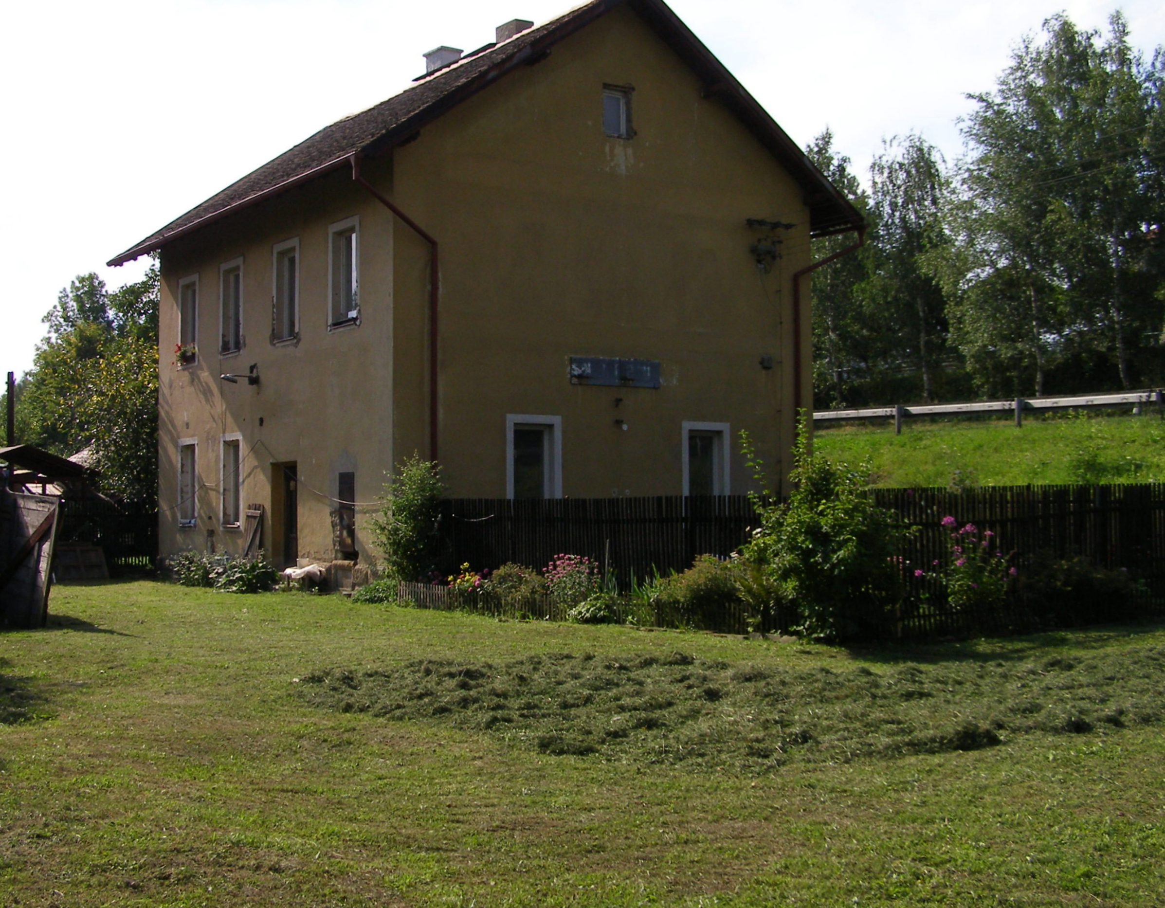 station building Úštěk horní nádraží